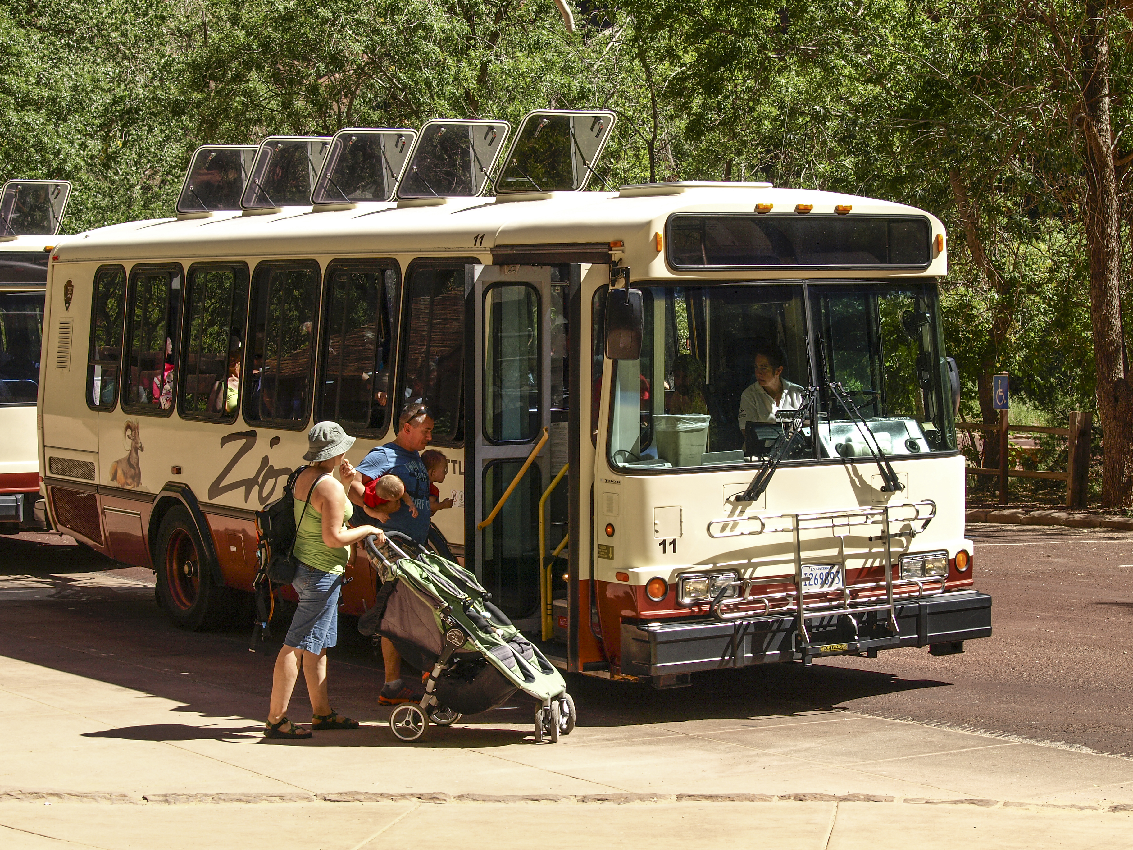 Zion Free Shuttle